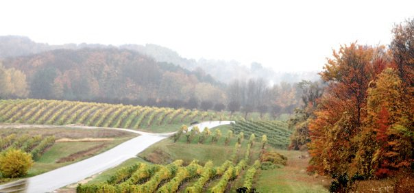 Picture of Chateau Chantal Vineyard